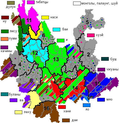 Autonomies in Yunnan